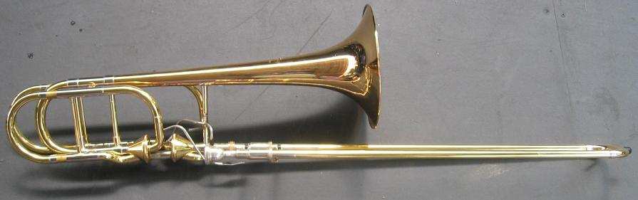 Bass trombone